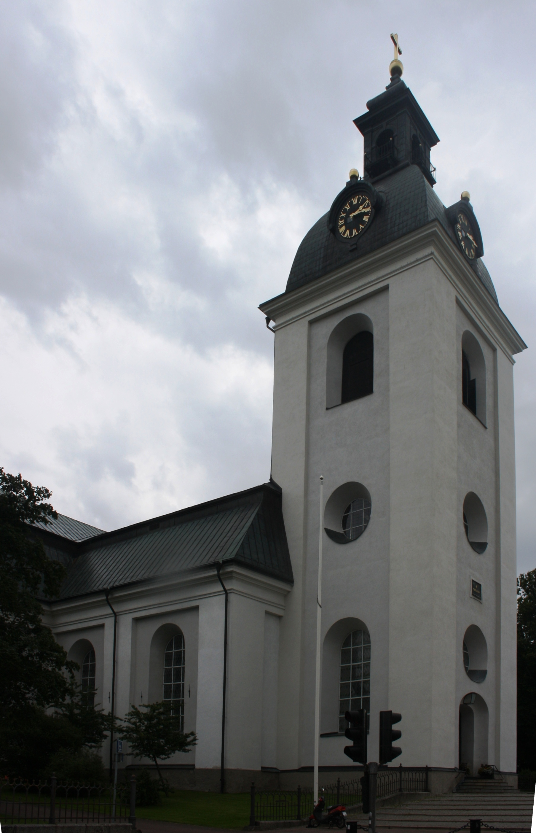 Filipstad, Sweden. Church.